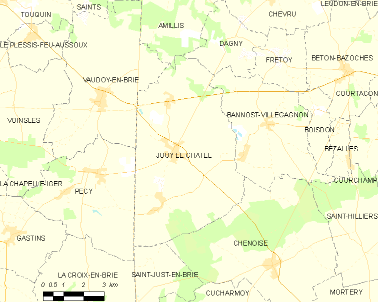 Map of French municipality Jouy-le-Châtel